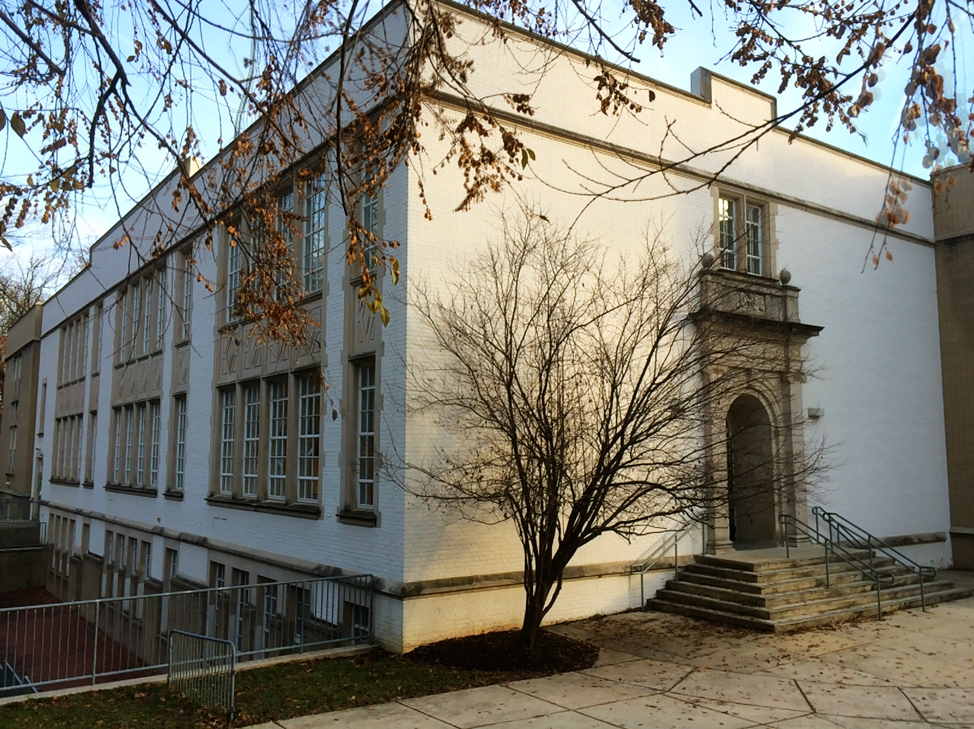 West wing (1930-36) of Chevy Chase Elementary School, Chevy Chase, Maryland